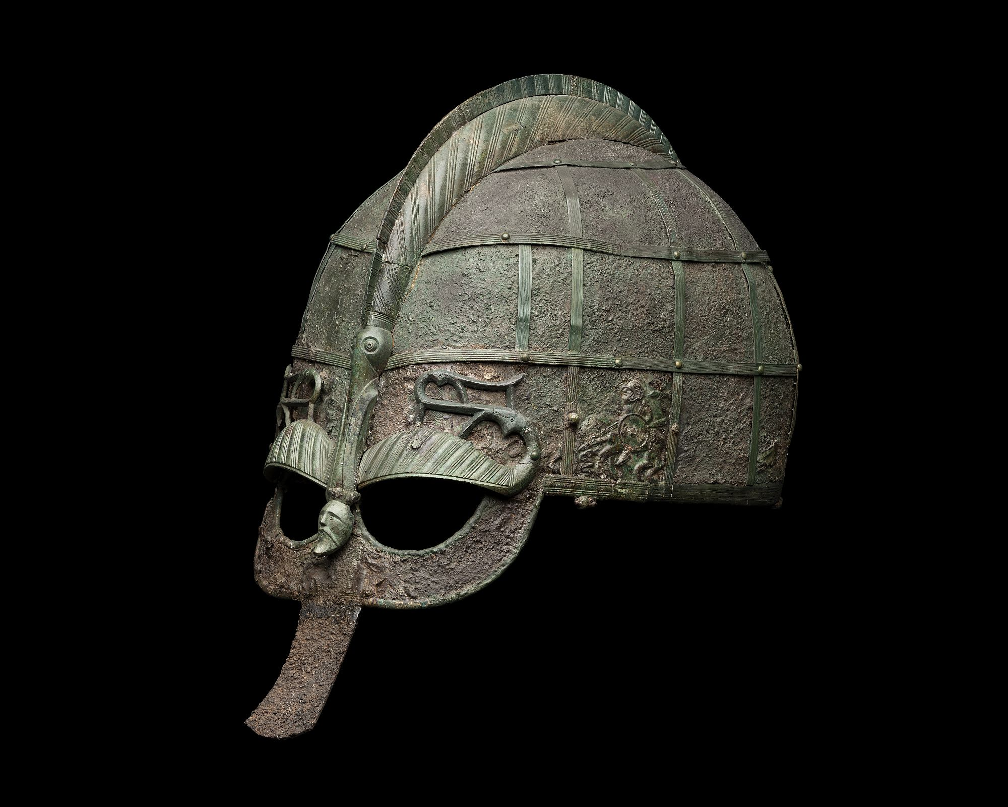 The Vendel I helmet at the Statens historiska museum